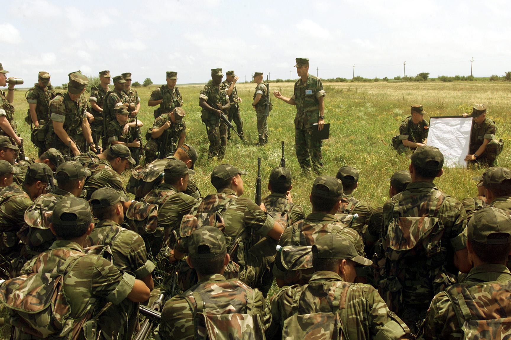 U.S. Marines from the 25th Marine Regiment and members of the Turkish military receive crowd control training during Exercise Rescue Eagle 2000 at Babadag Range, Romania, on July 12, 2000. Rescue Eagle 2000 is a Romanian-hosted joint and combined exercise designed to improve the abilities of multi-national forces to conduct peacekeeping, search and rescue, humanitarian assistance and disaster relief missions. Forces from Azerbaijan, Bulgaria, Georgia, France, Germany, Greece, Hungary, Italy Moldovia, Romania, Slovakia, Turkey and the United States are participating in the exercise.